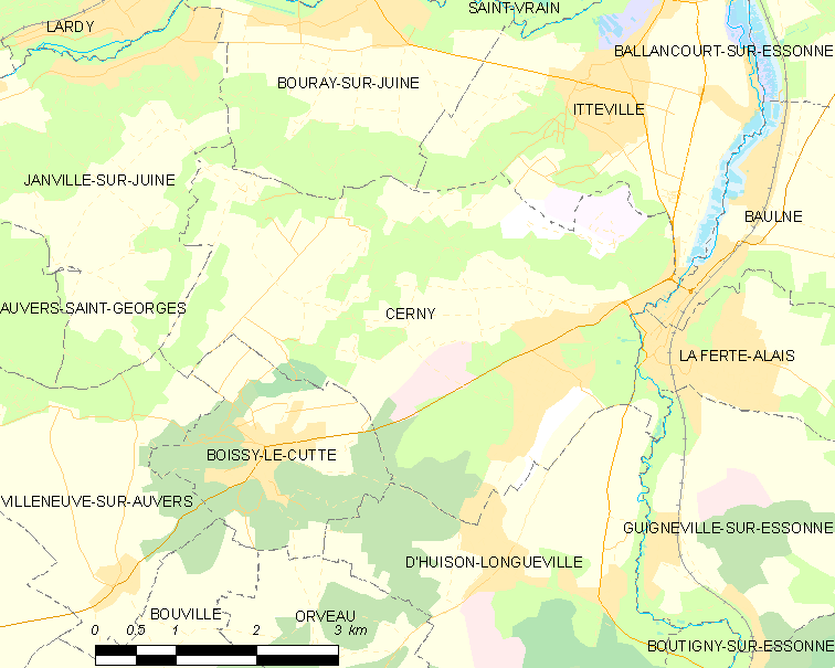 Map of French municipality Cerny